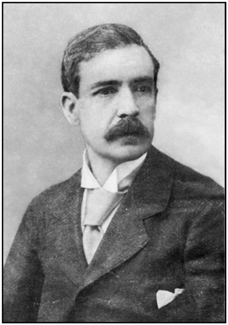 Picture of William Niven (1850-1937), mineralogist and archeologist circa 1895.